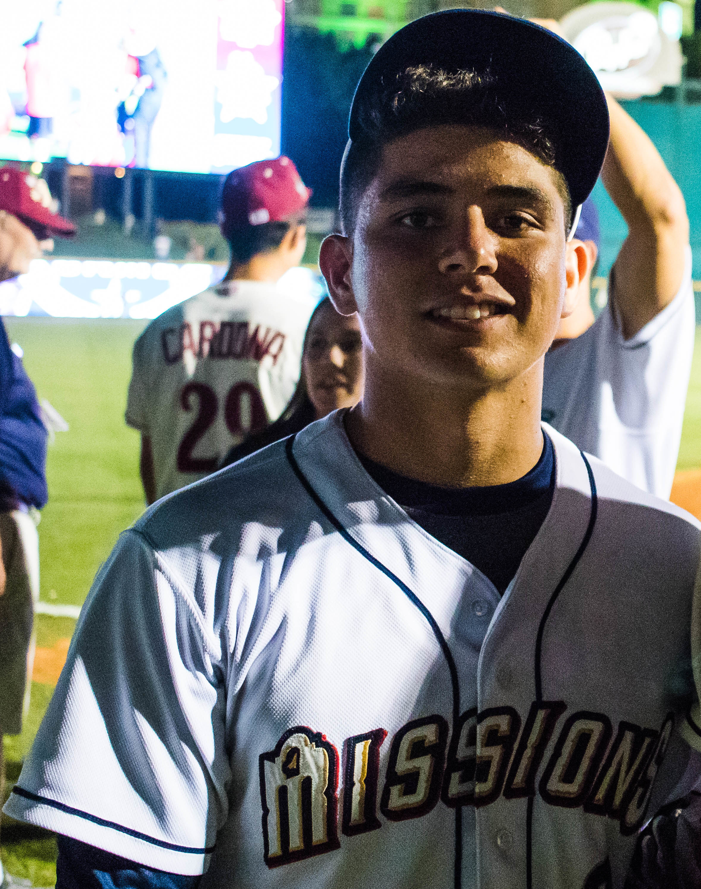 Luis Urias (left) of the San Antonio Missions and Ariel Jurado of the Frisco RoughRiders during the 2017 Texas League All-Star Game